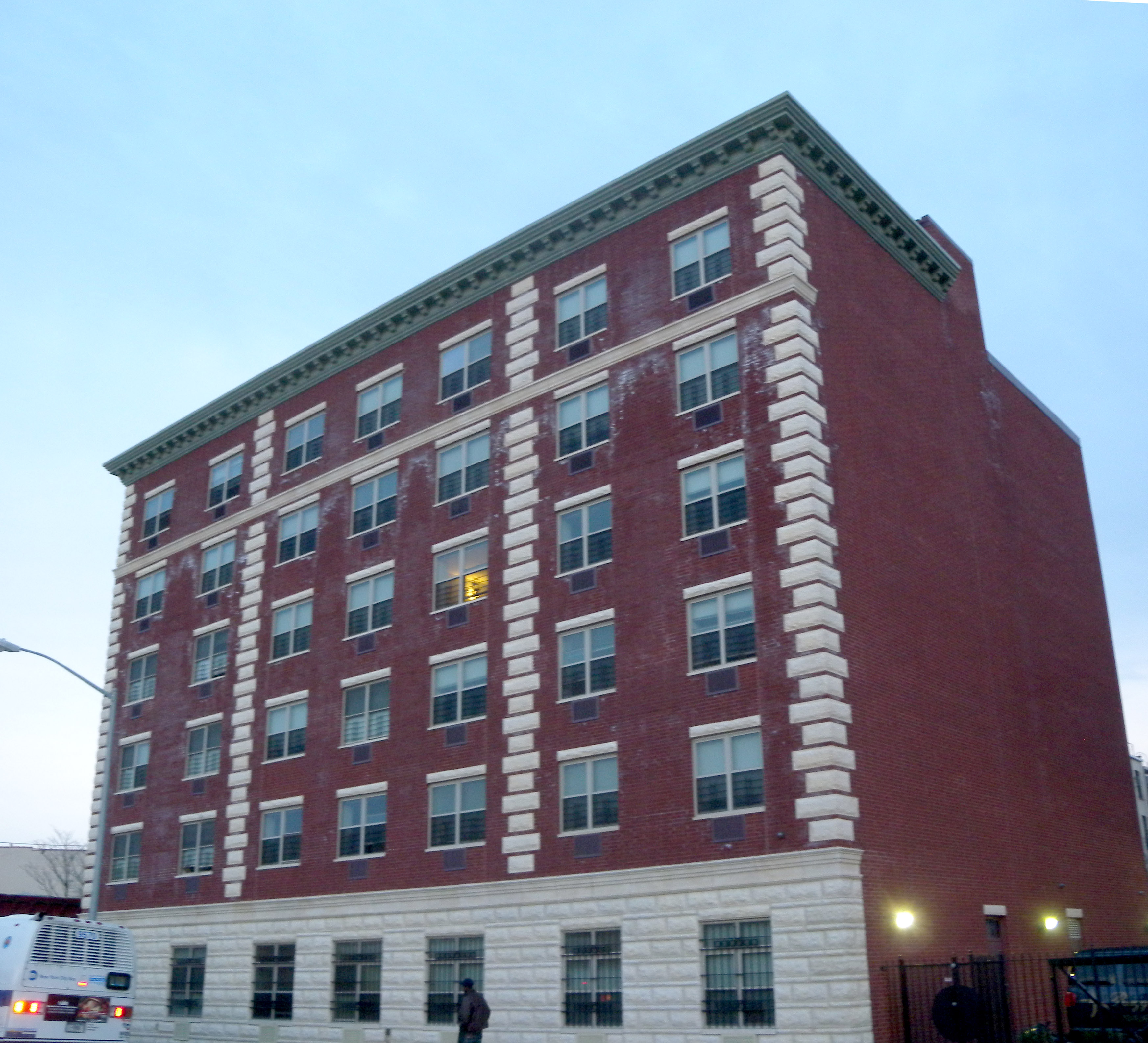 Looking southeast across Lafayette and towards Patchen Avenue on a cloudy late afternoon.